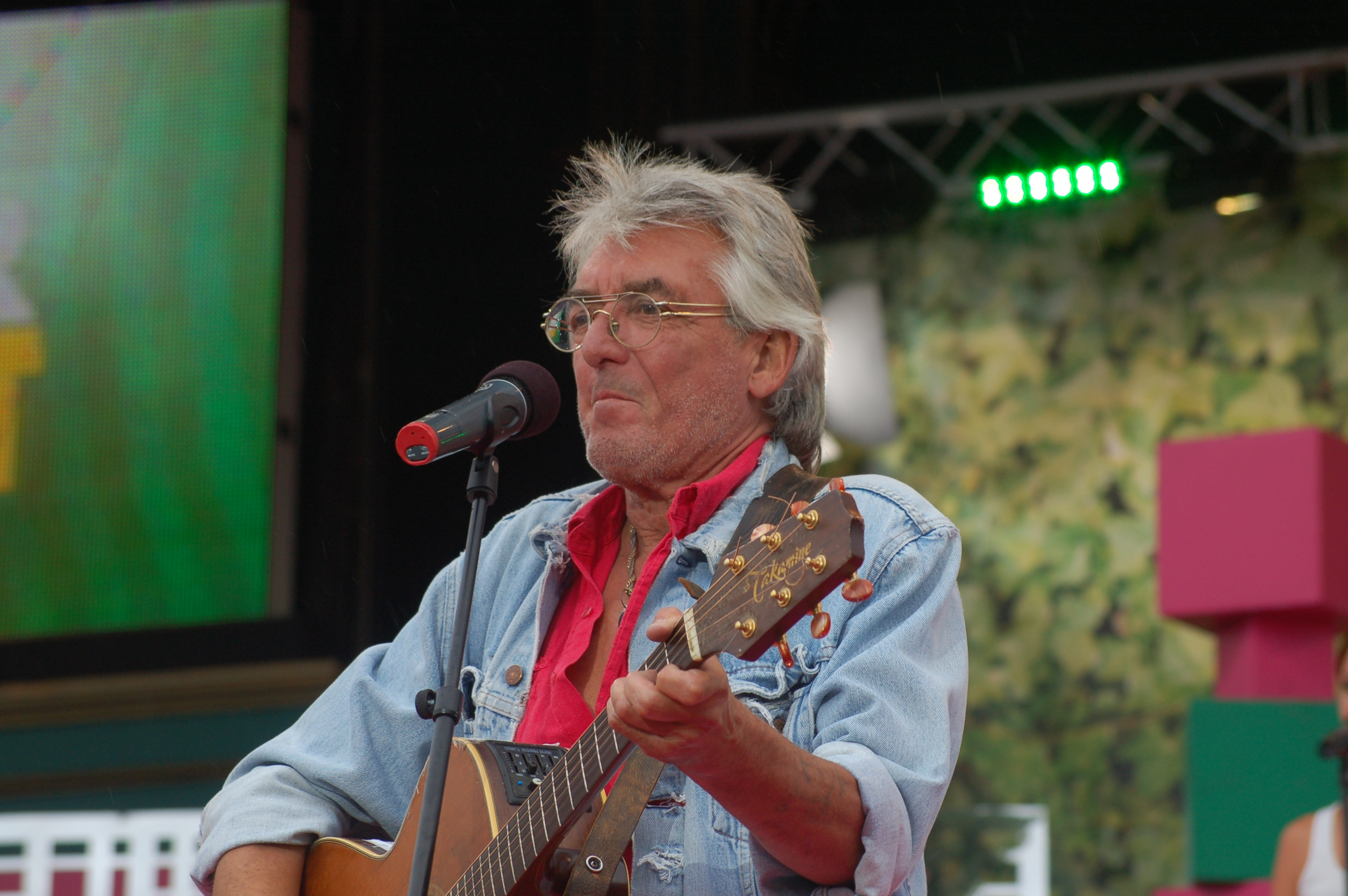 Göran Ringbom at Gröna Lund, Sommarkrysset